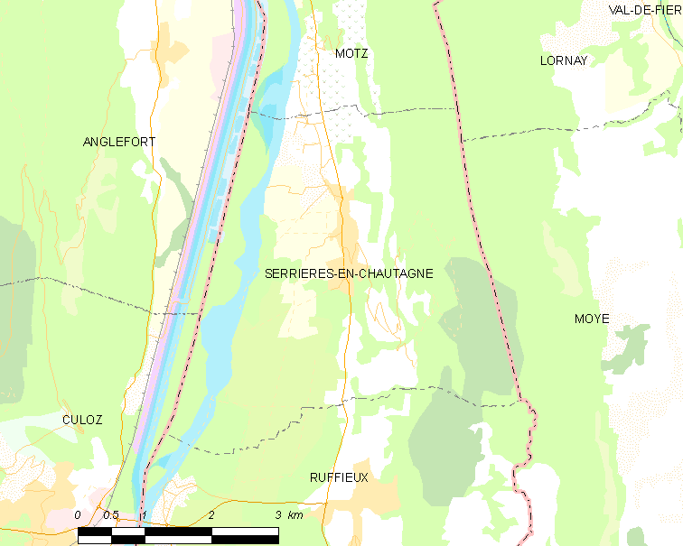 Map of French municipality Serrières-en-Chautagne